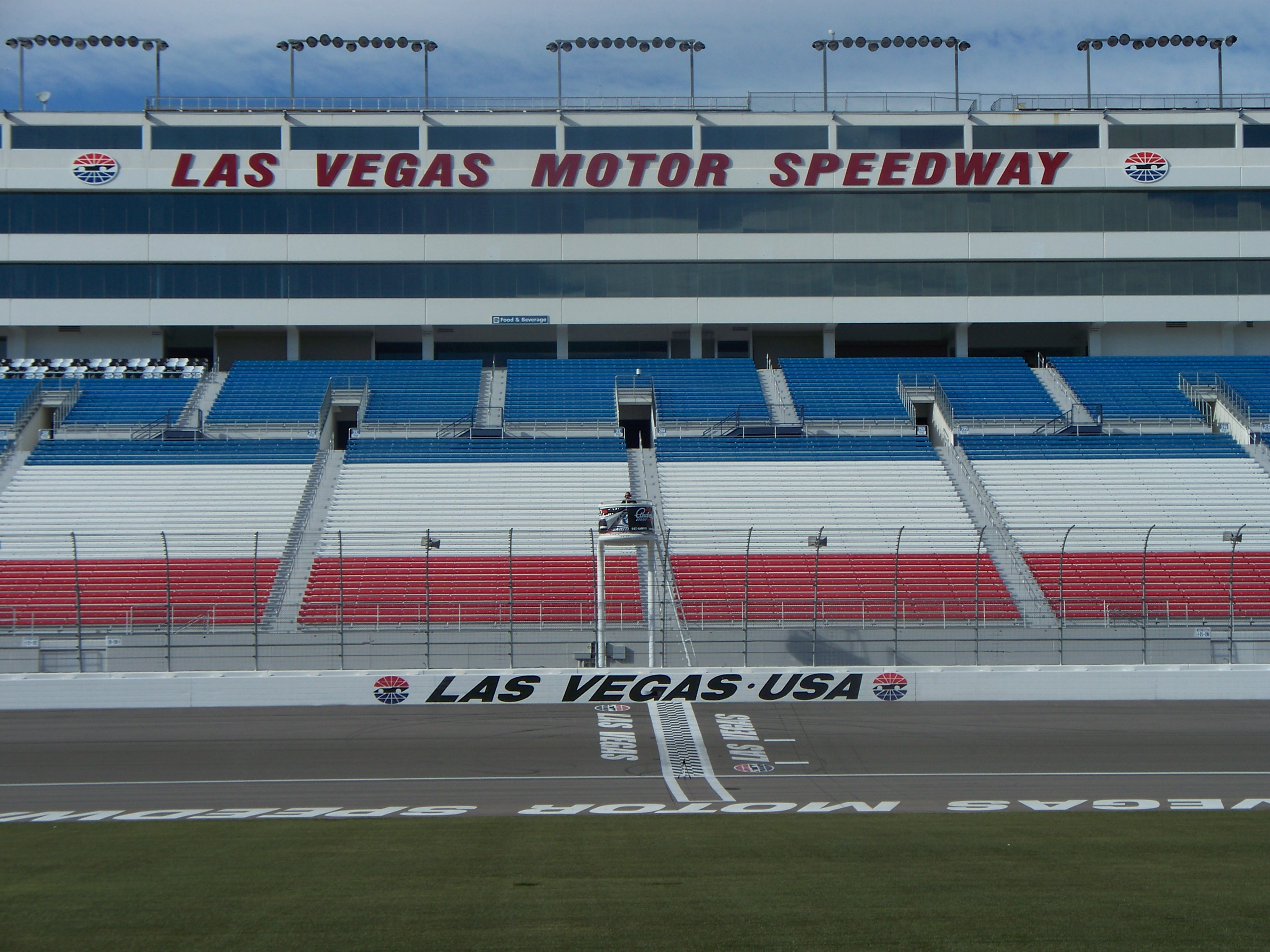 This photo is of the Main Grandstand at the Superspeedway at the Las Vegas Motor Speedway. The photo is taken from the pit area of the race track. The Superspeedway is home to a NASCAR Nationwide Series race and Sprint Cup Series race usually in March.